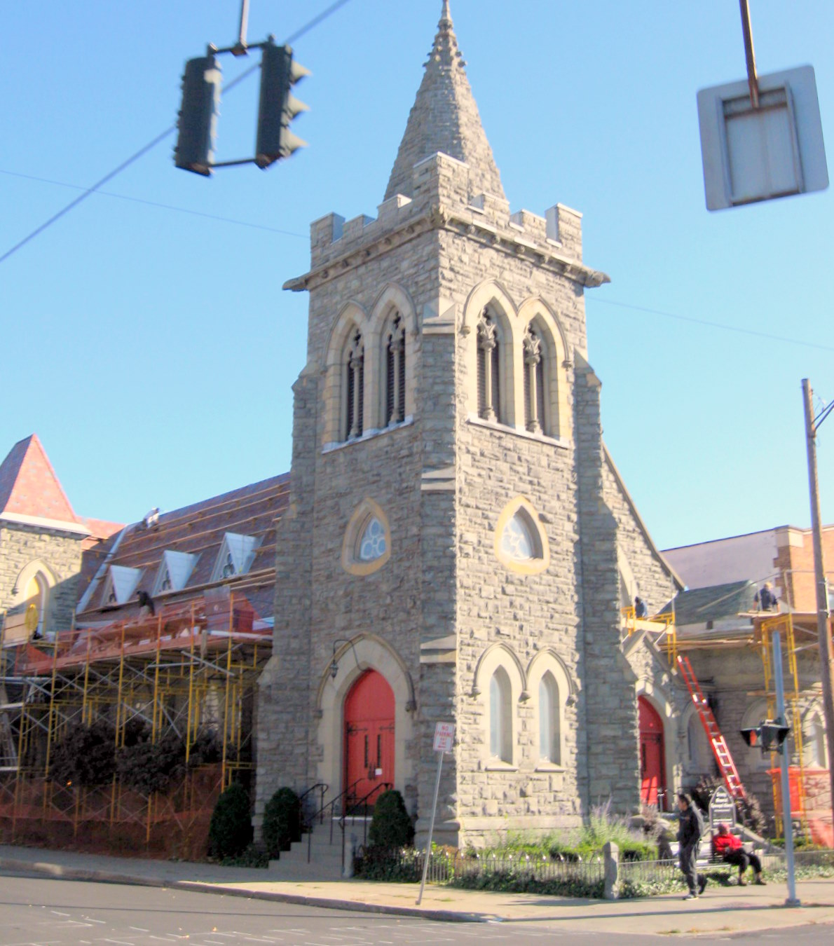 West Side of Binghamton, New York